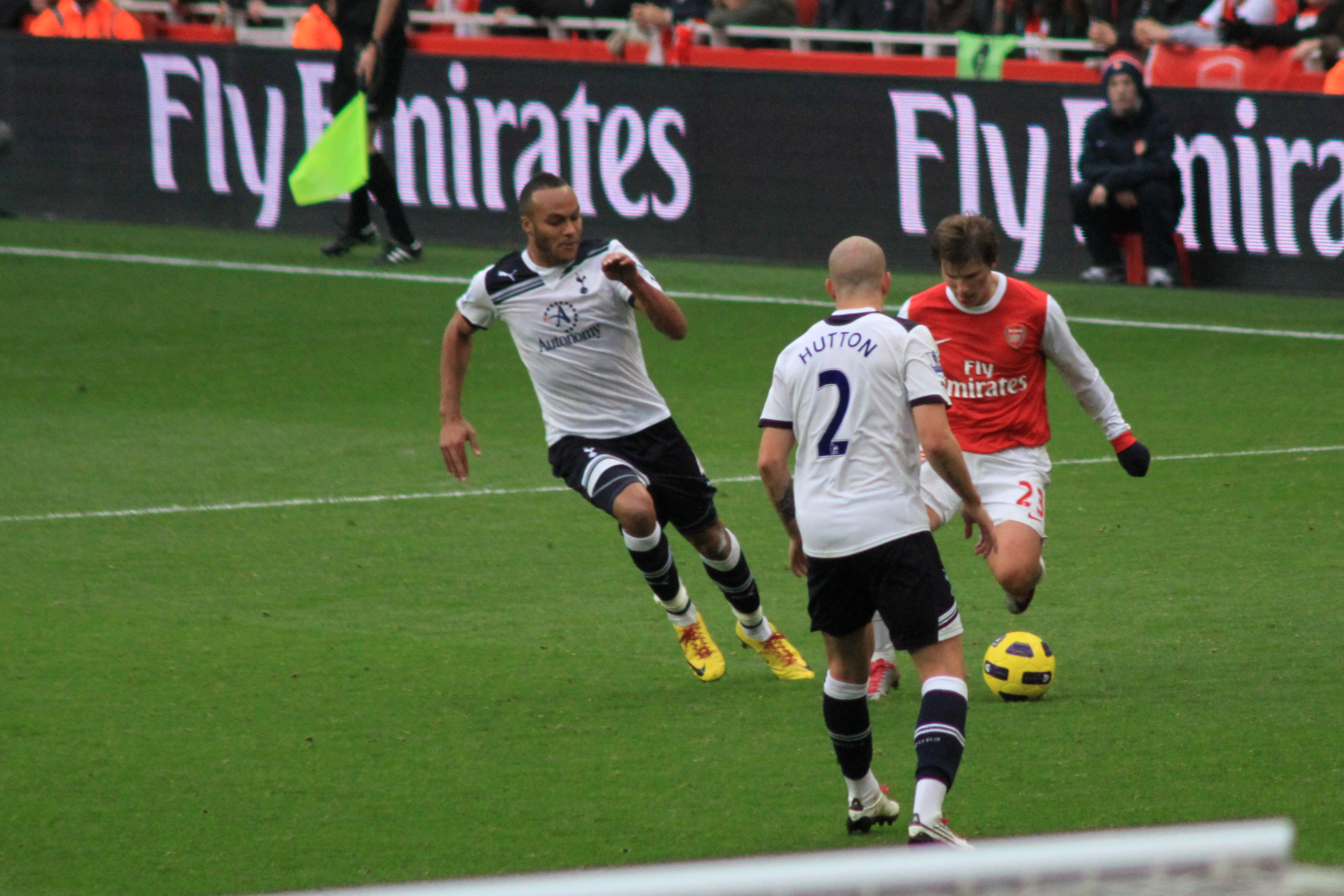 Younes Kaboul (left) and Alan Hutton defend against Andrei Arshavin